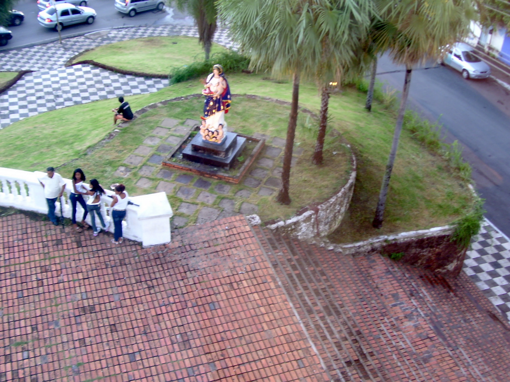 Part of the churchyard of Church Our Lady of the Rosary and St. Benedict, seen from the bell tower. Cuiabá, Mato Grosso, Brazil.